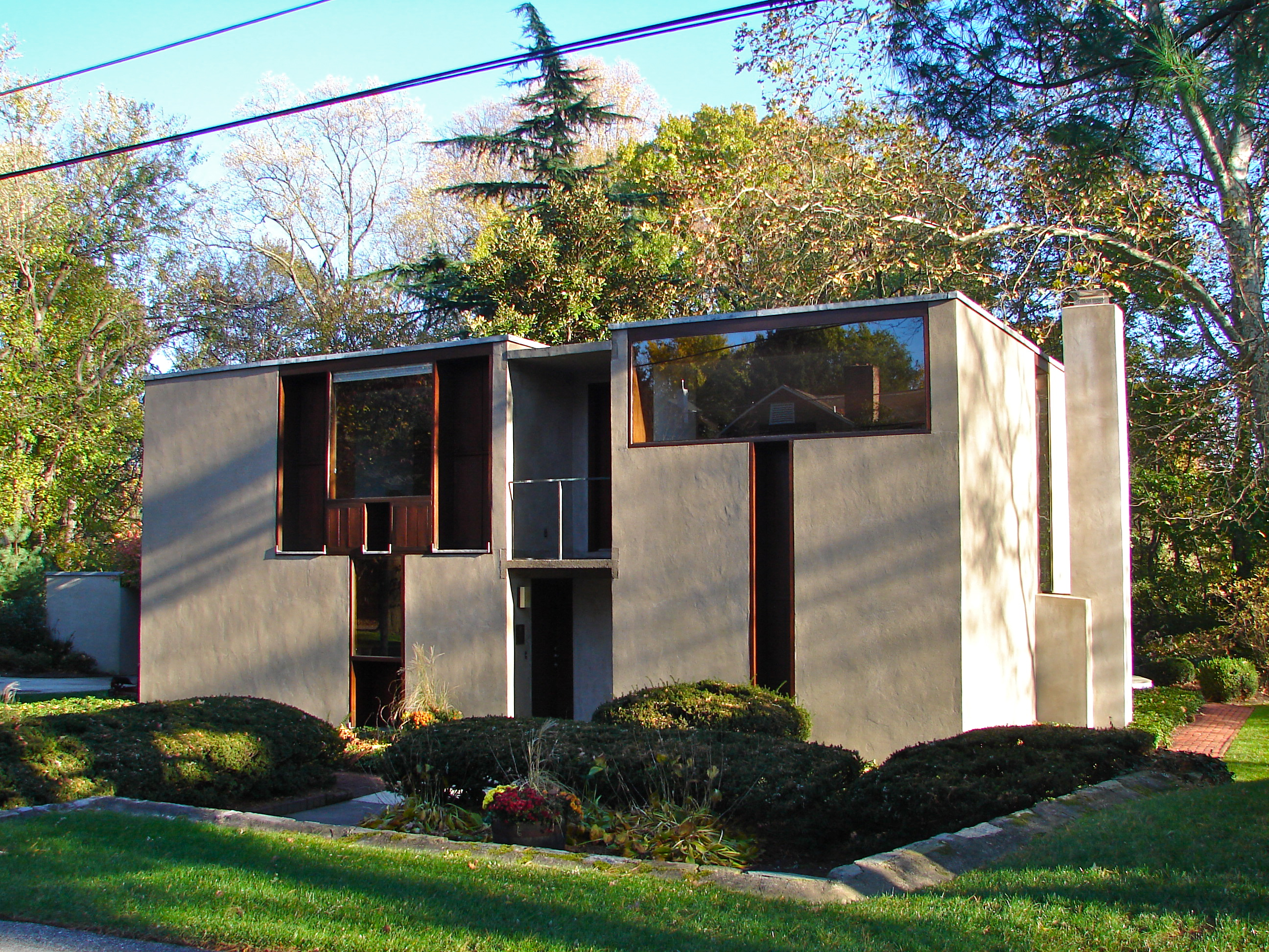 Esherick House designed by Louis Kahn. Located at 204 Sunrise Lane, in the Chestnut Hill neighborhood of Philadelphia, about a block from Pastorious Park